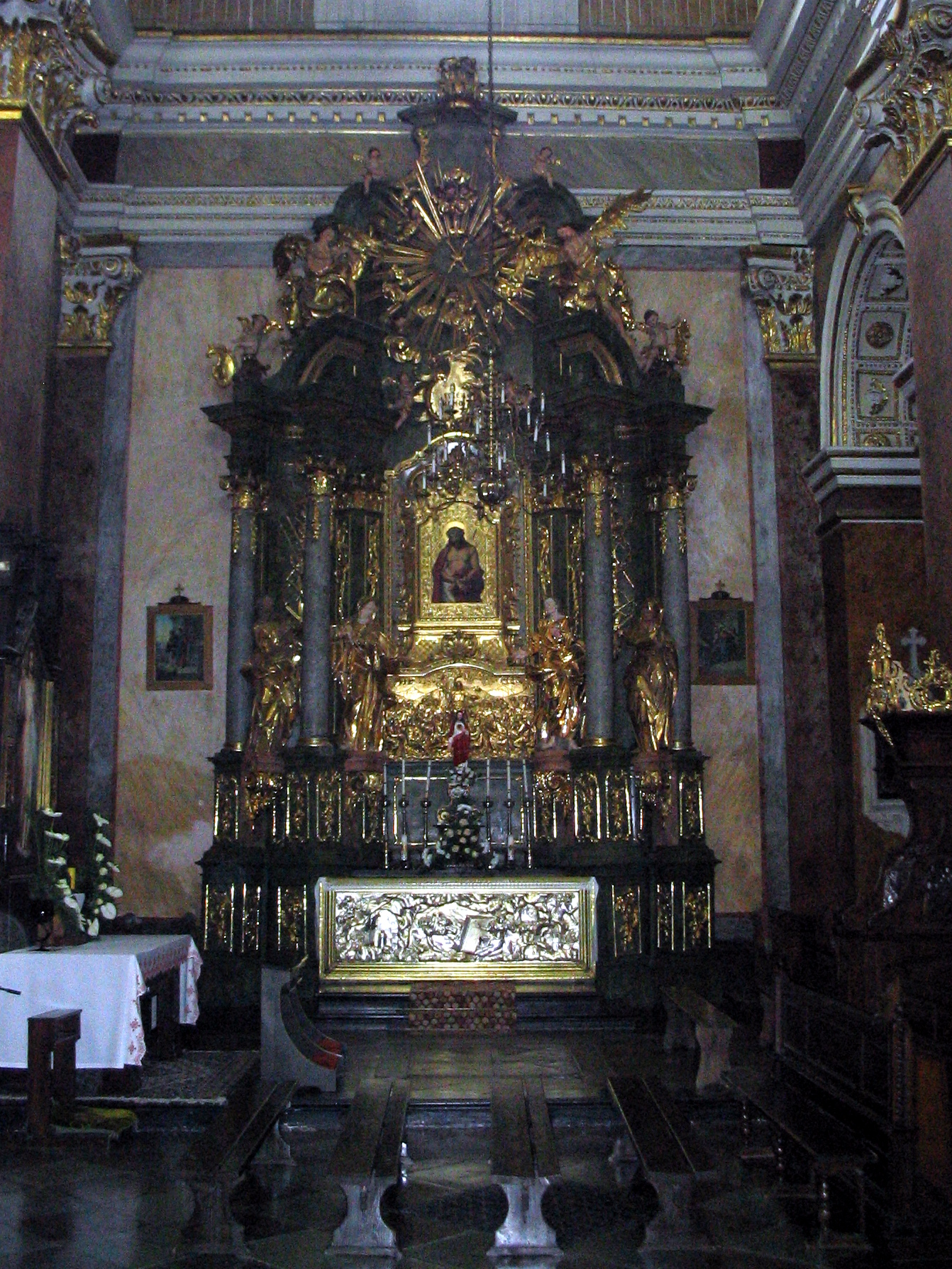 Carmelitan Church in Przemyśl, Poland